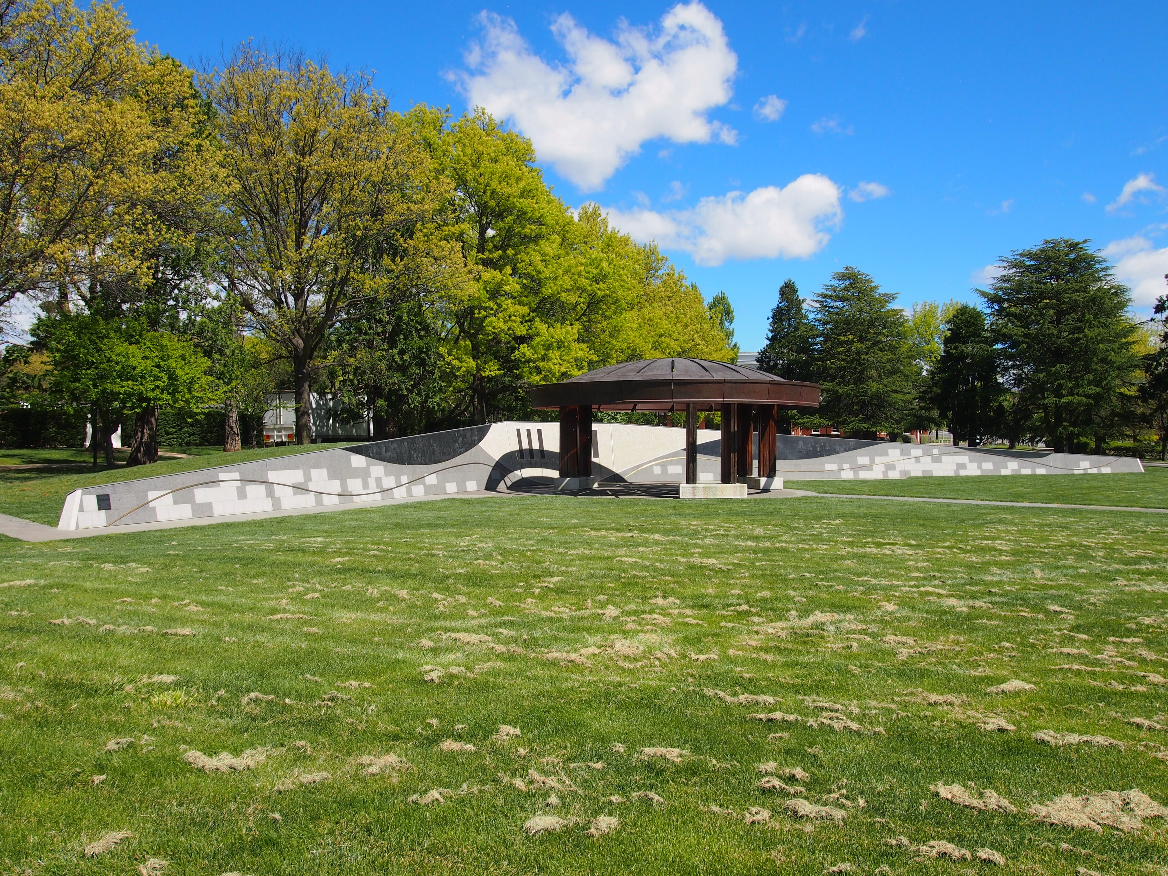 Magna Carta Place in October 2012